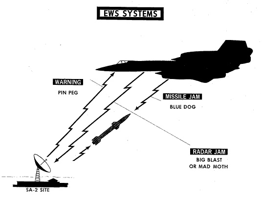 Schematics of A-12 Electronic Warfare System